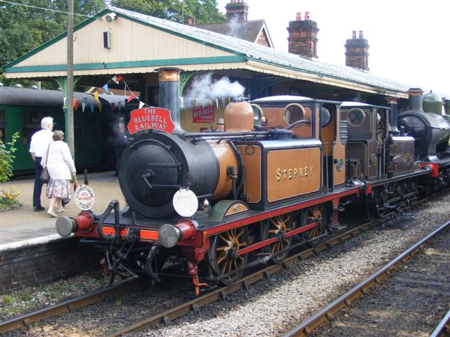 55 Stepney at Horsted Keynes station, Bluebell Railway